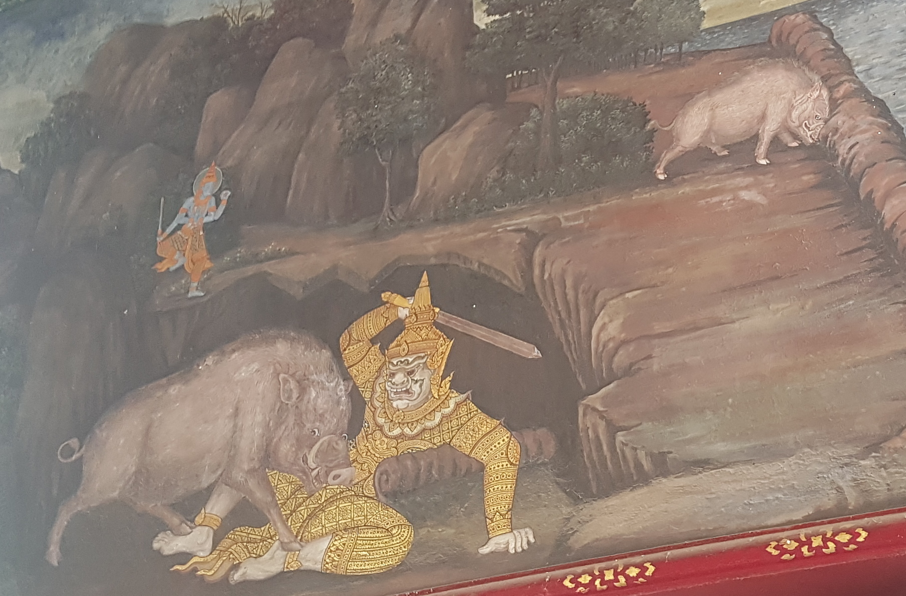 Overview: Painting at the Temple of the Emerald Buddha, Bangkok, depicting characters or scenes from Rammakian, a Thai version of the Hindu epic poem Rāmāyaṇa. Characters/scenes depicted: The god Witsanu (วิษณุ) transforms (avatar) himself into a boar to kill the demon Hiranta (หิรันตยักษ์) who curls the earth up in an attempt to take over the world.